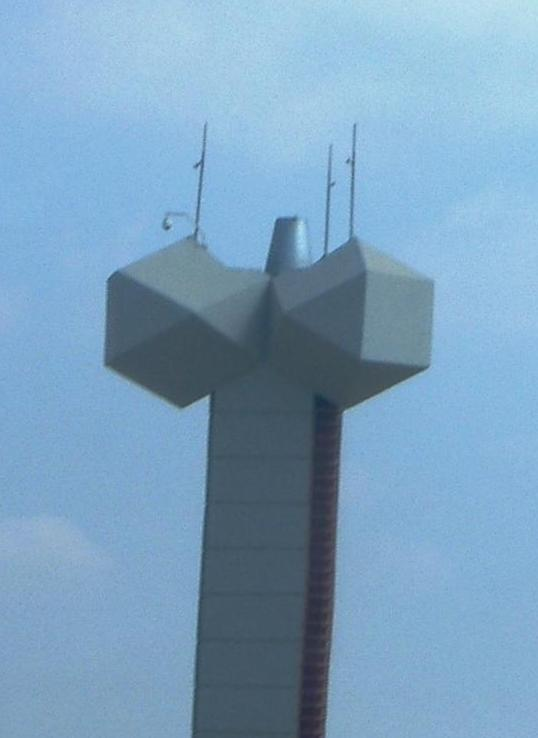 שני קובוקטהדרונים במרכז הרפואי הלל יפה בחדרה. צולם מכביש החוף. (צולם בזמן נסיעה - אבל לא על ידי הנהג. התמונה עובדה כדי לטשטש כתמים על העדשה) Two Cuboctahedrons at Hillel Yaffe Medical Center, Israel